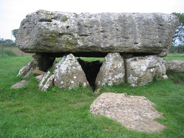 Lligwy Burial Chamber/Siambr Gladdu Llugwy Looking beneath the huge capstone of the burial chamber. It is possible for the confident, or foolhardy, to scramble underneath the estimated 25 ton stone.